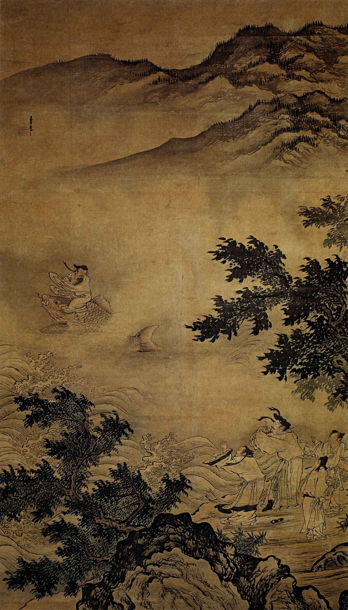 Qin Gao Rides the Carp, hanging scroll, Color on silk, 164.2 x 95.6 cm. Located at the Shanghai Museum. This painting is based on the fable contained in Liexian Zhuan .